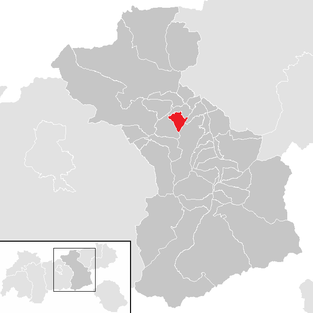 District Schwaz